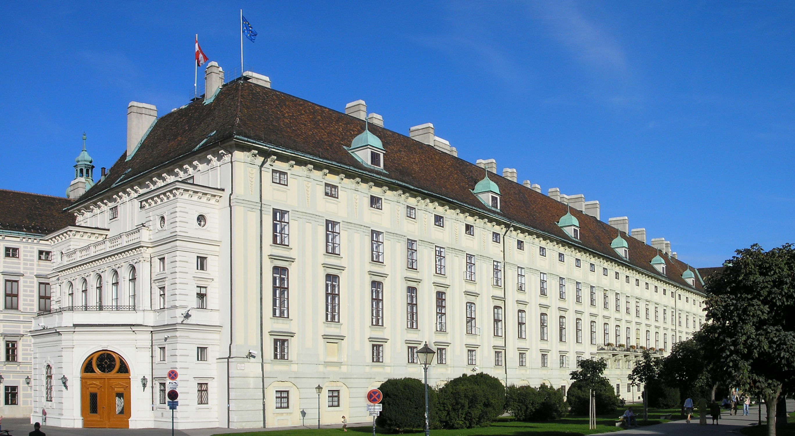 The Leopoldinischer Trakt (Leopoldine Wing) of the Hofburg Imperial Palace in Vienna, today houses the offices of the Federal President of Austria.